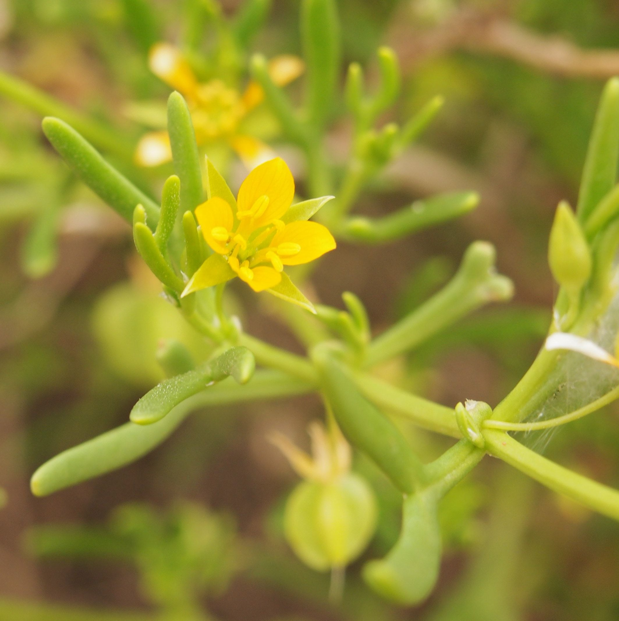 Zygophyllum eremaeum, flower.